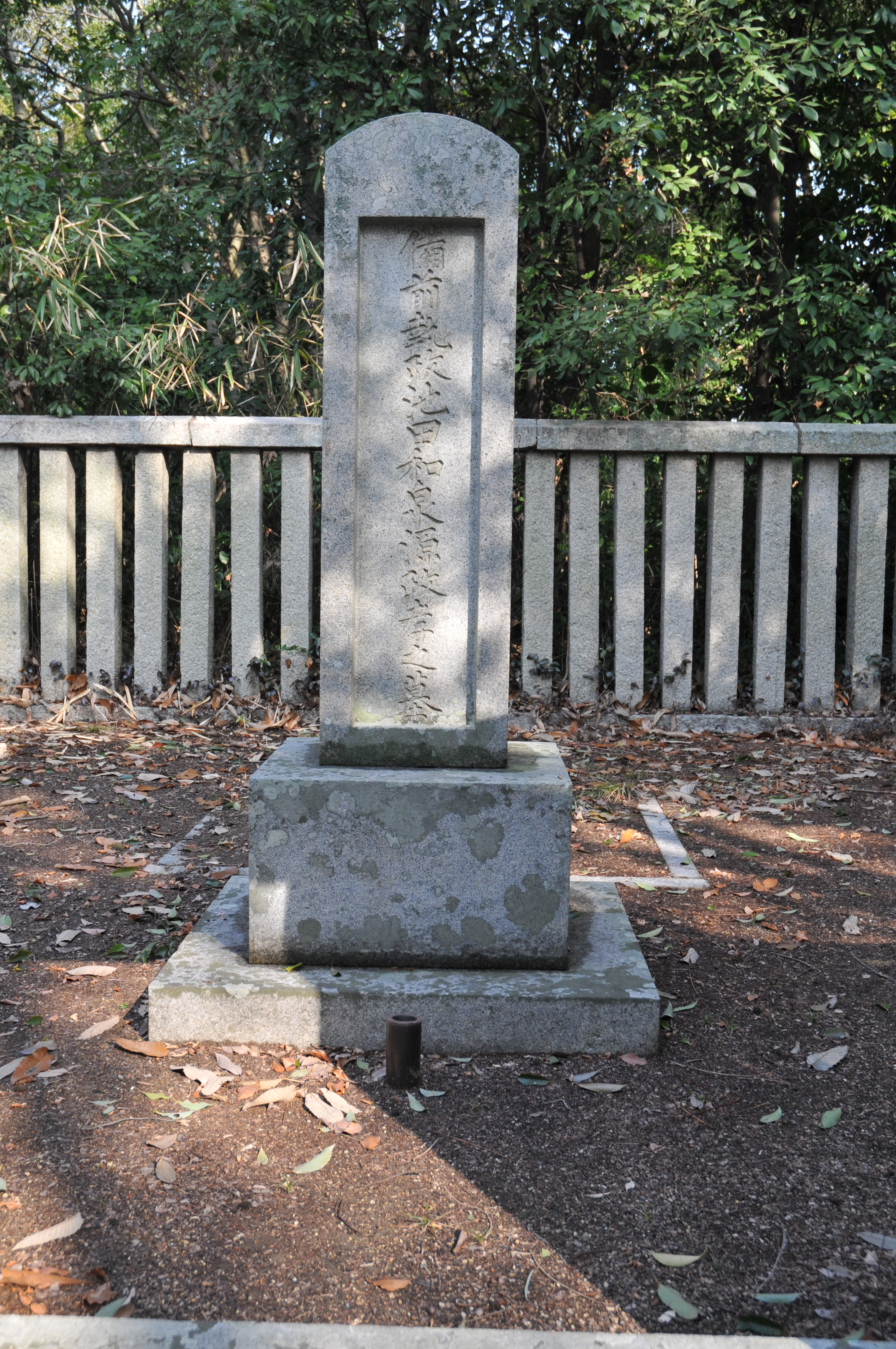 grave of Ikeda Masataka(7th family head)